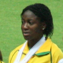 World Athletics Championships 2007 in Osaka - Victory ceremony for the women's 4*100 metres relay (Allyson Felix not present among US team due to preparation for the 4*400 metres relay)